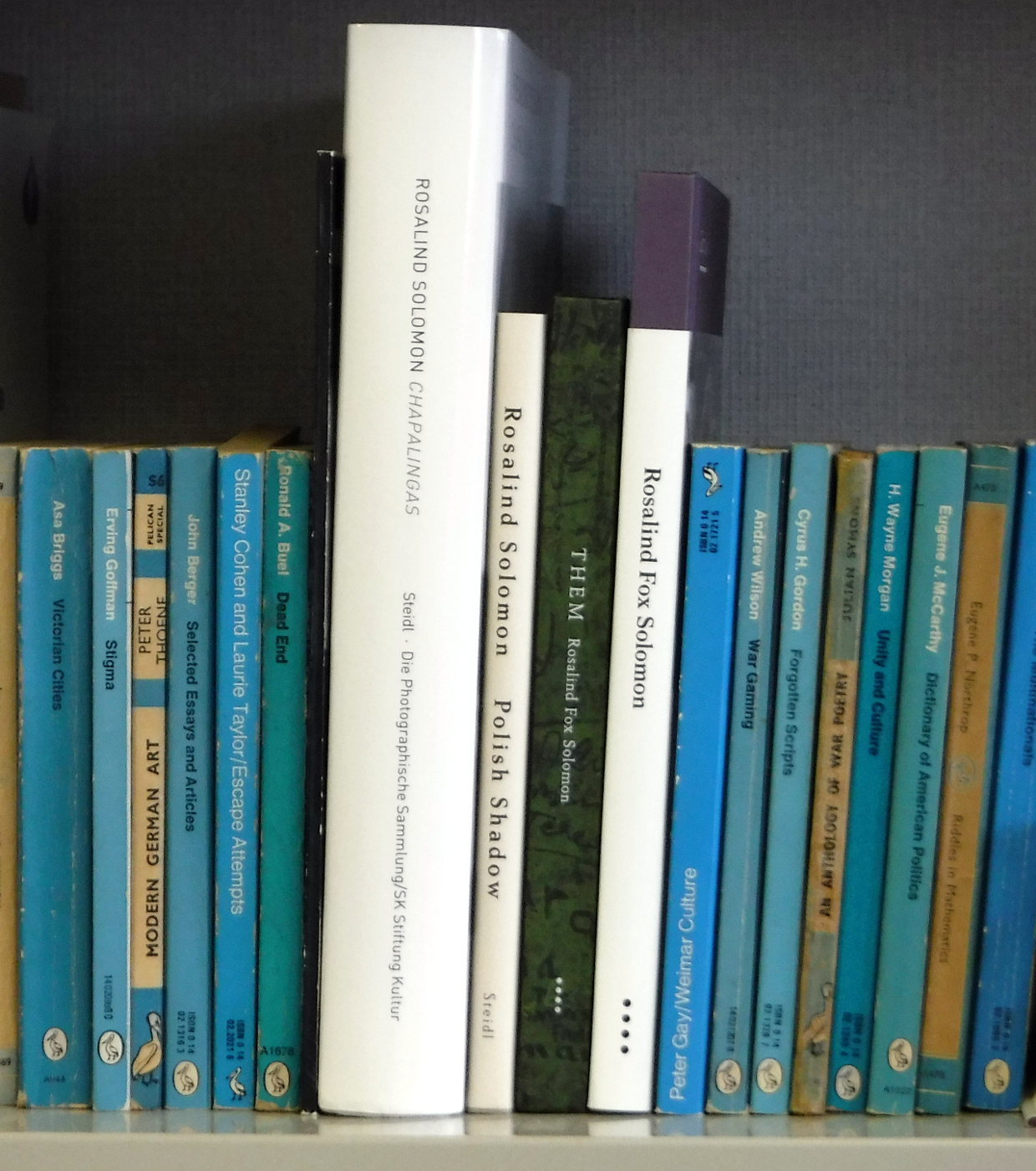 Some photobooks by Rosalind Solomon (flanked by irrelevant Pelicans)